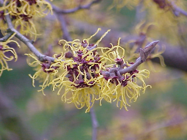 Species: Hamamelis japonica Family: Hamamelidaceae Image No. 3